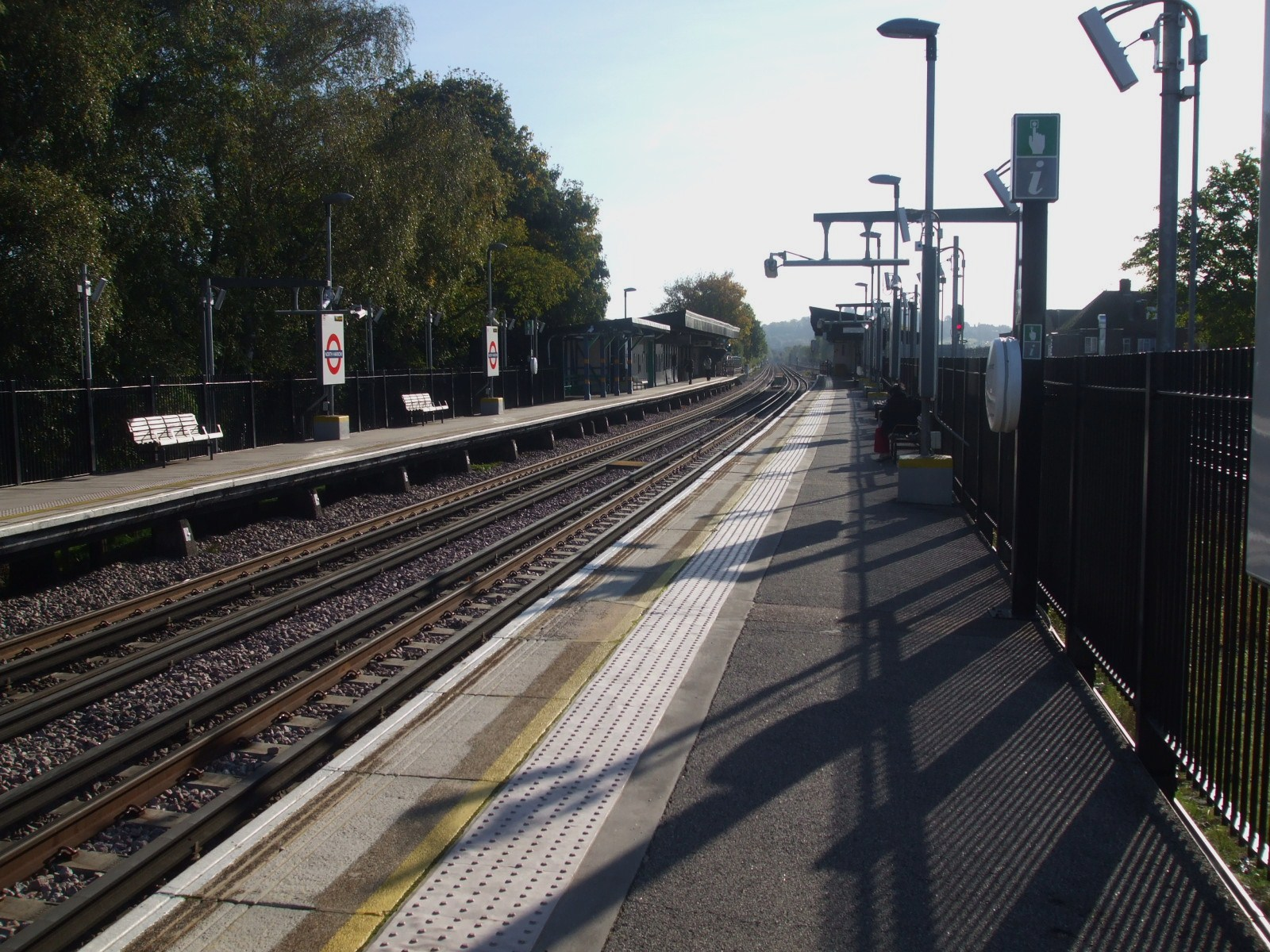 North Harrow tube station looking east